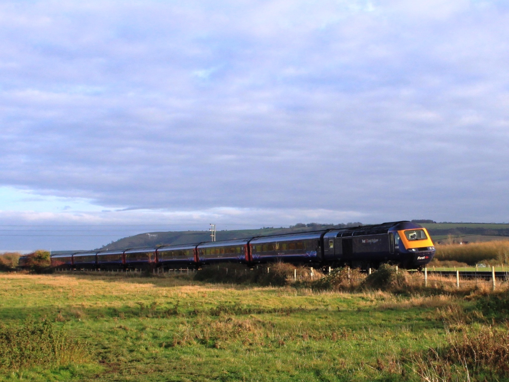 First Great Western's 43186 speeds along the avoiding line at Westbury in Wiltshire with a London Padidngton to Plymouth service. The Westbury White Horse can be seen carved on the hillside above the train.